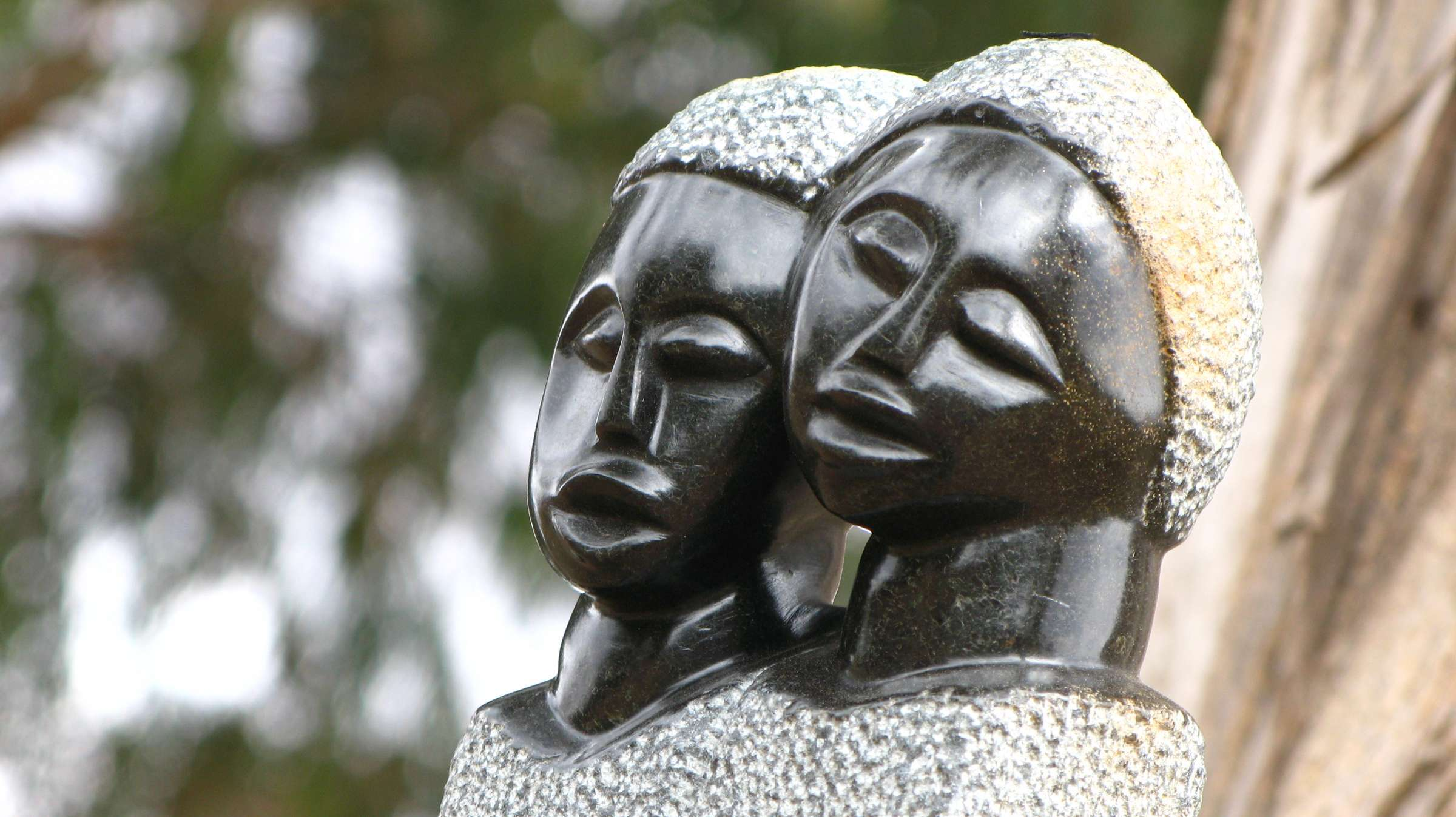 Hwange. Local sculpture details